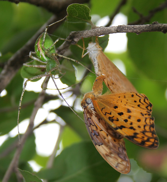 Common Leopard Phalanta phalantha in Hyderabad , India.